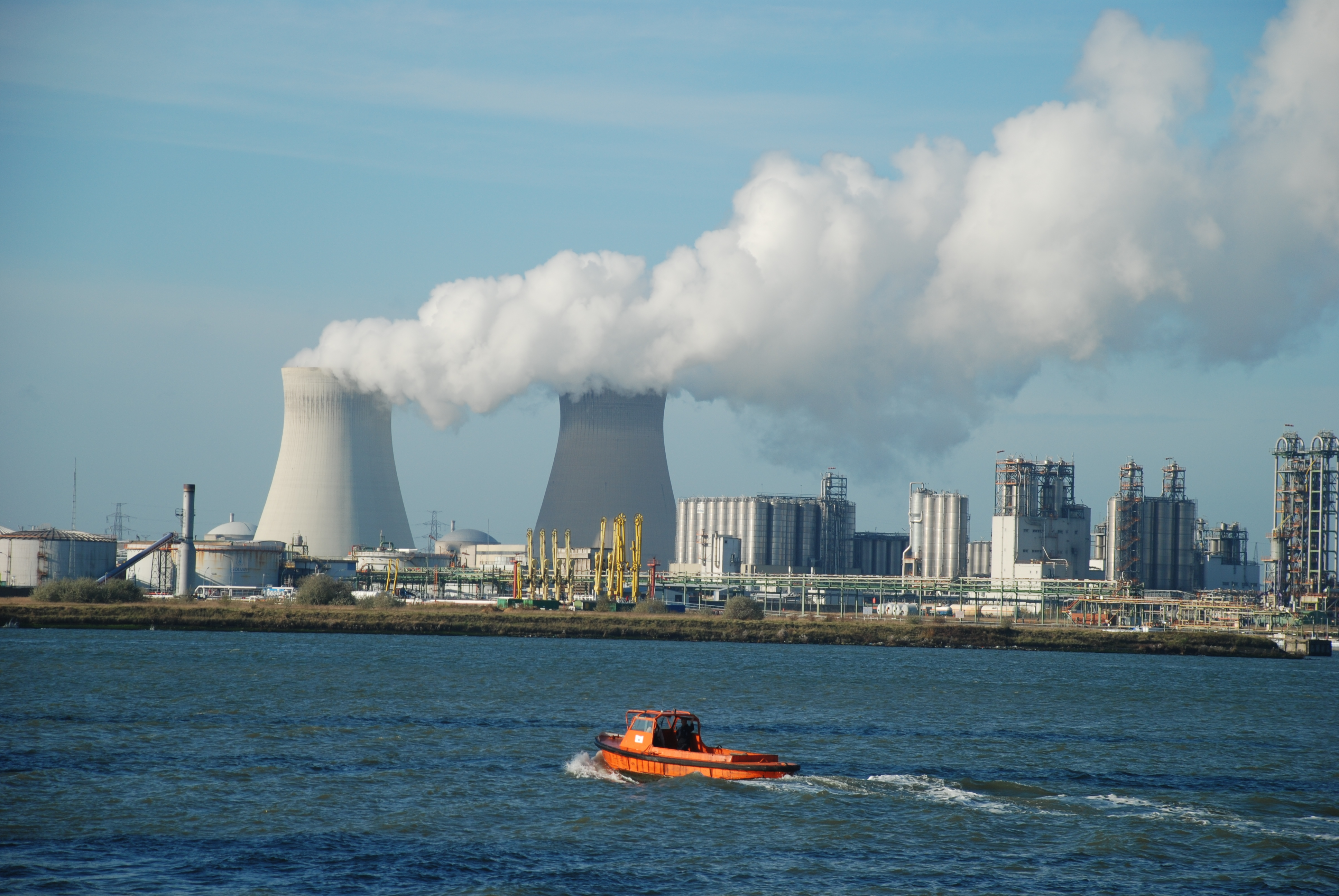 Nuclear plant of Doel, near the Scheldt river.